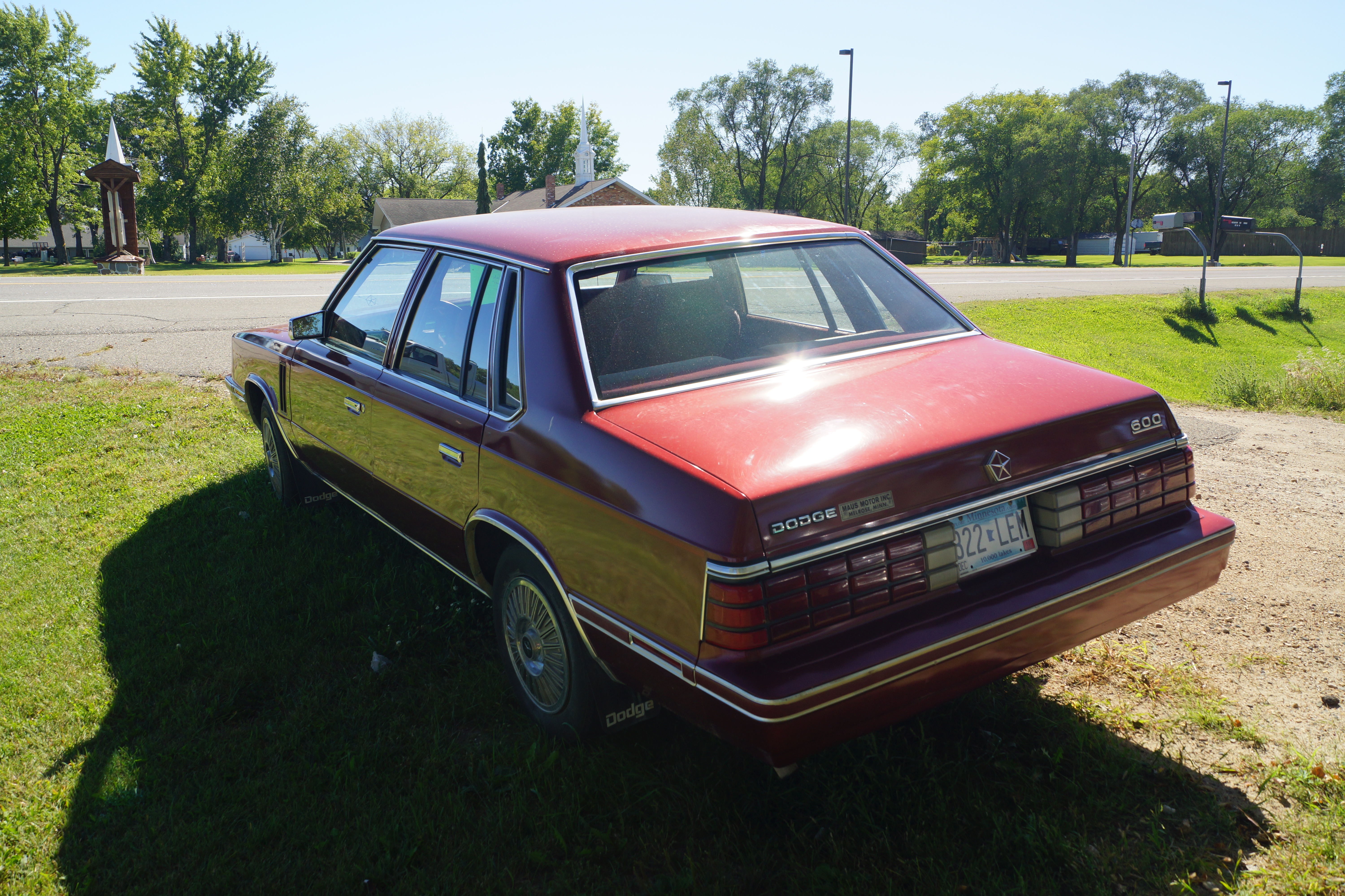 Click here for more car pictures at my Flickr site.